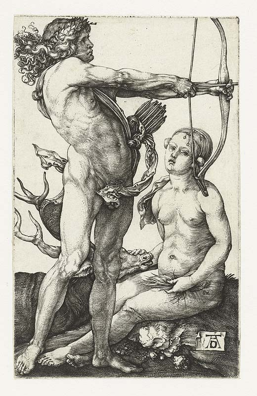 Apollo and Diana